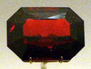 Pyrope from Kenya/Tanzania, National Museum of Natural History, Washington DC